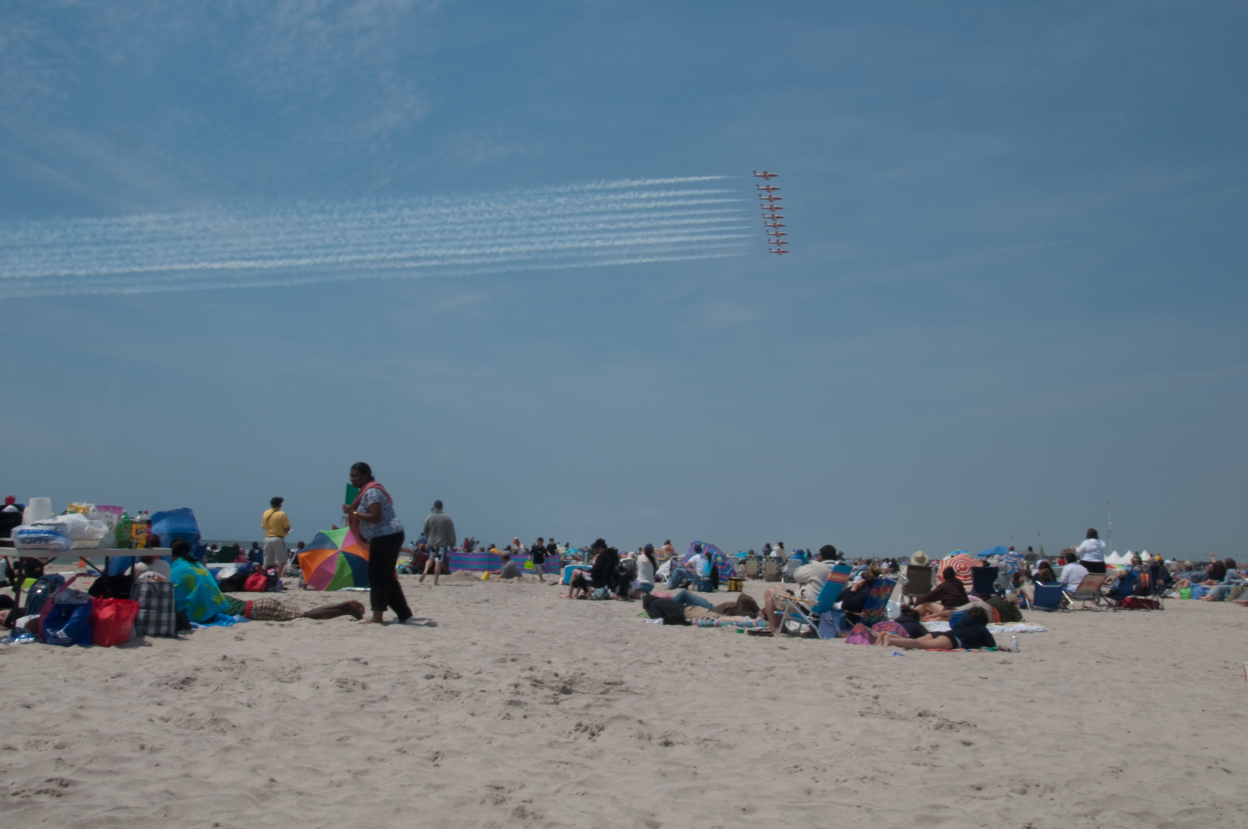 Picture of the 2009 Jones Beach Airshow